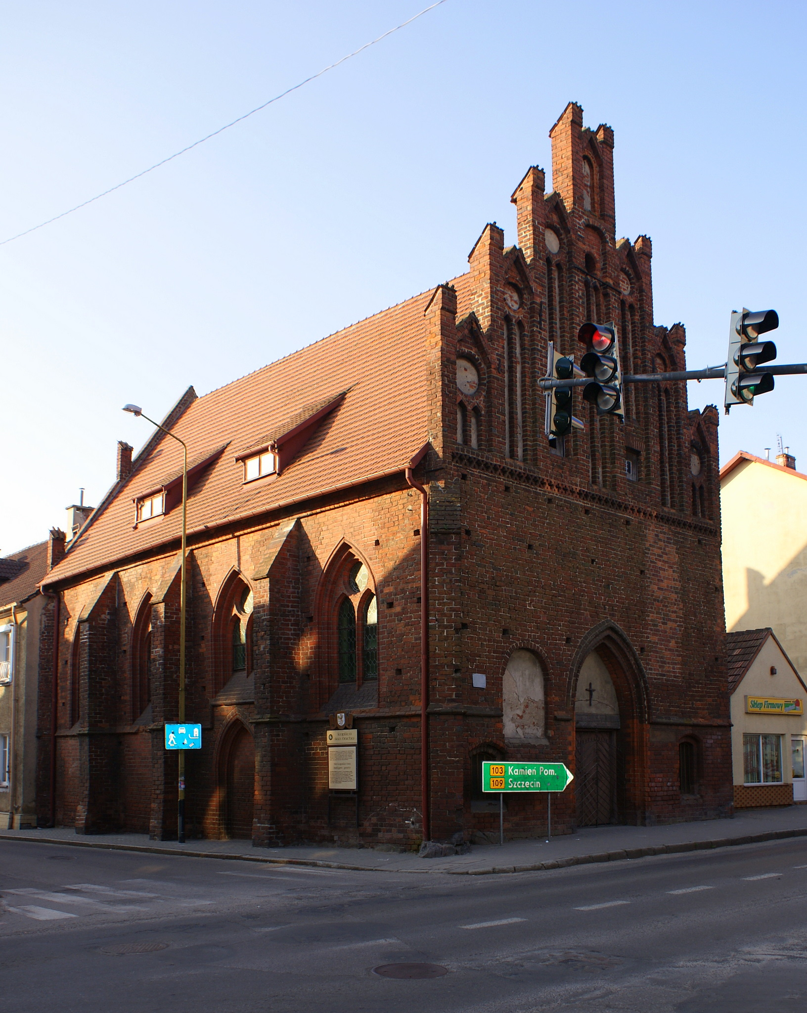 Holy Spirit Chapel in Trzebiatów, Poland